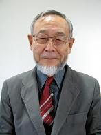 Keiji Morokuma, Fellow of Fukui Institute for Fundamental Chemistry, Kyoto University, received the Person of Cultural Merit on November, 2012.